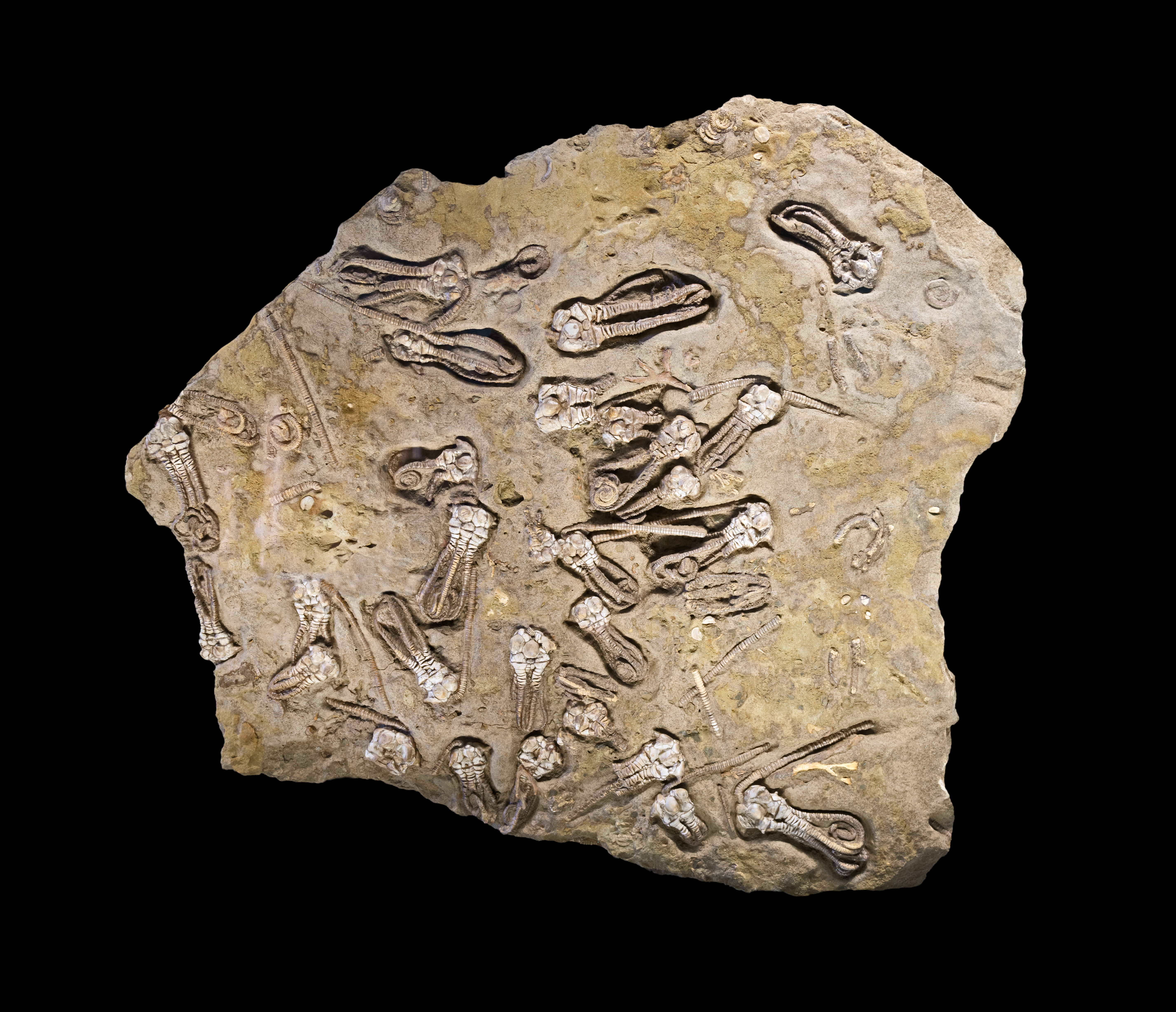 Jimbacrinus bostocki Stage : Artinskian between 290.1 ± 0.1 and 279.3 ± 0.6 million years ago (Ma). Size and weight : 77x75x5.5 cm – 25.5 Kg